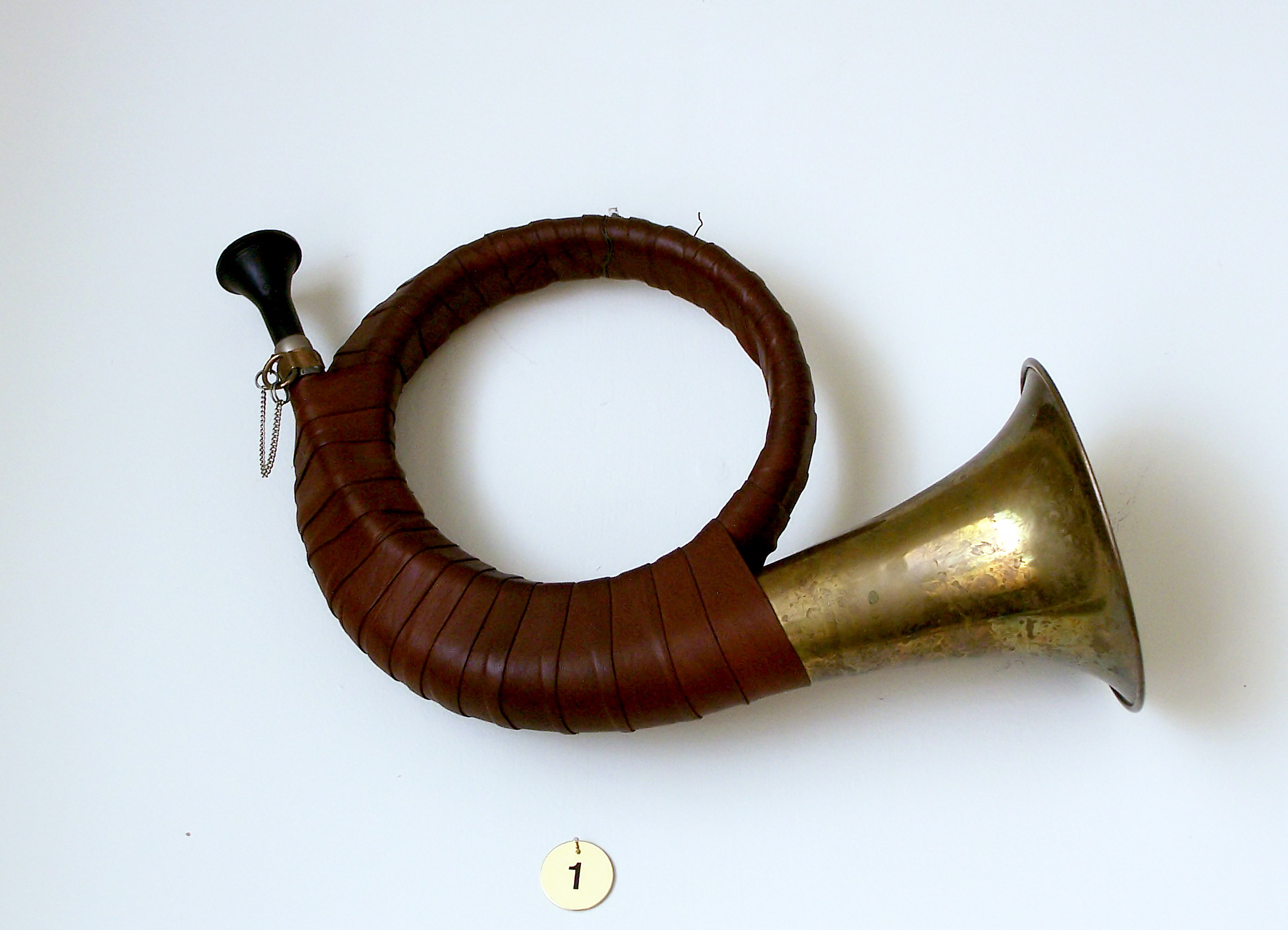 Courtesy of Muzeum w Bielsku-Białej - Zamek książąt Sułkowskich.